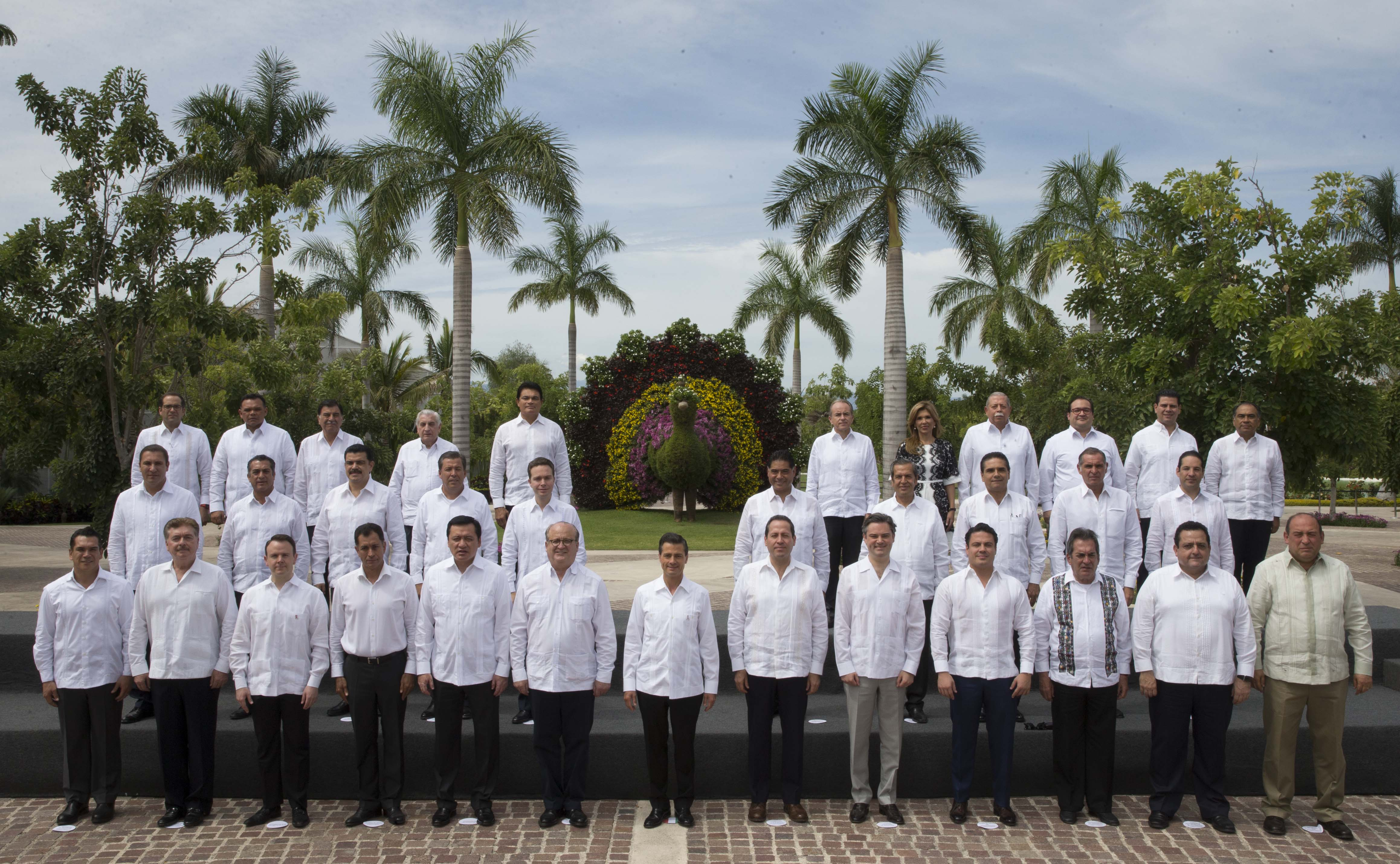 Conferencia Nacional de Gobernadores. Tema: Educación. Estado de Morelos. 19 de octubre de 2015.